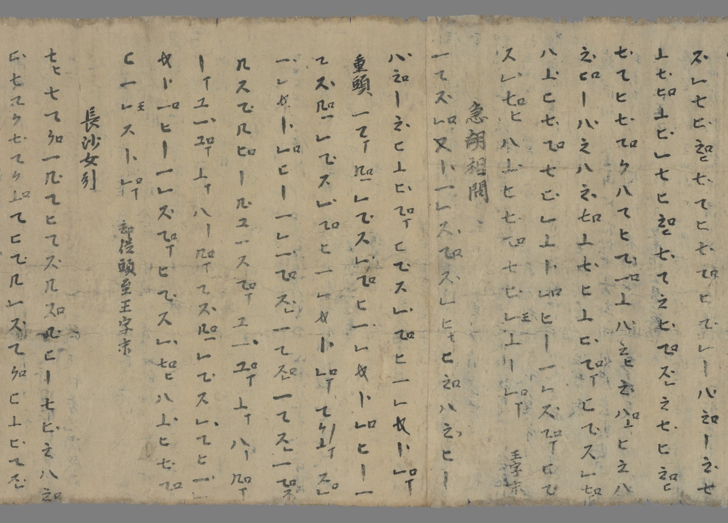 Part of the Dunhuang sheet music.